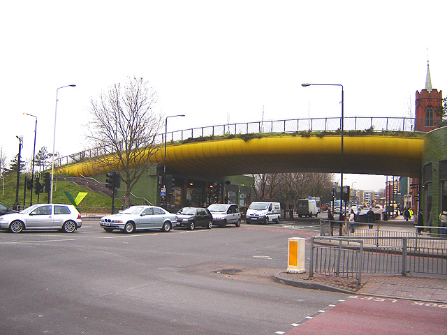 The Green Bridge, Mile End, Tower Hamlets, London. 6 January 2006. Photographer: Fin Fahey.